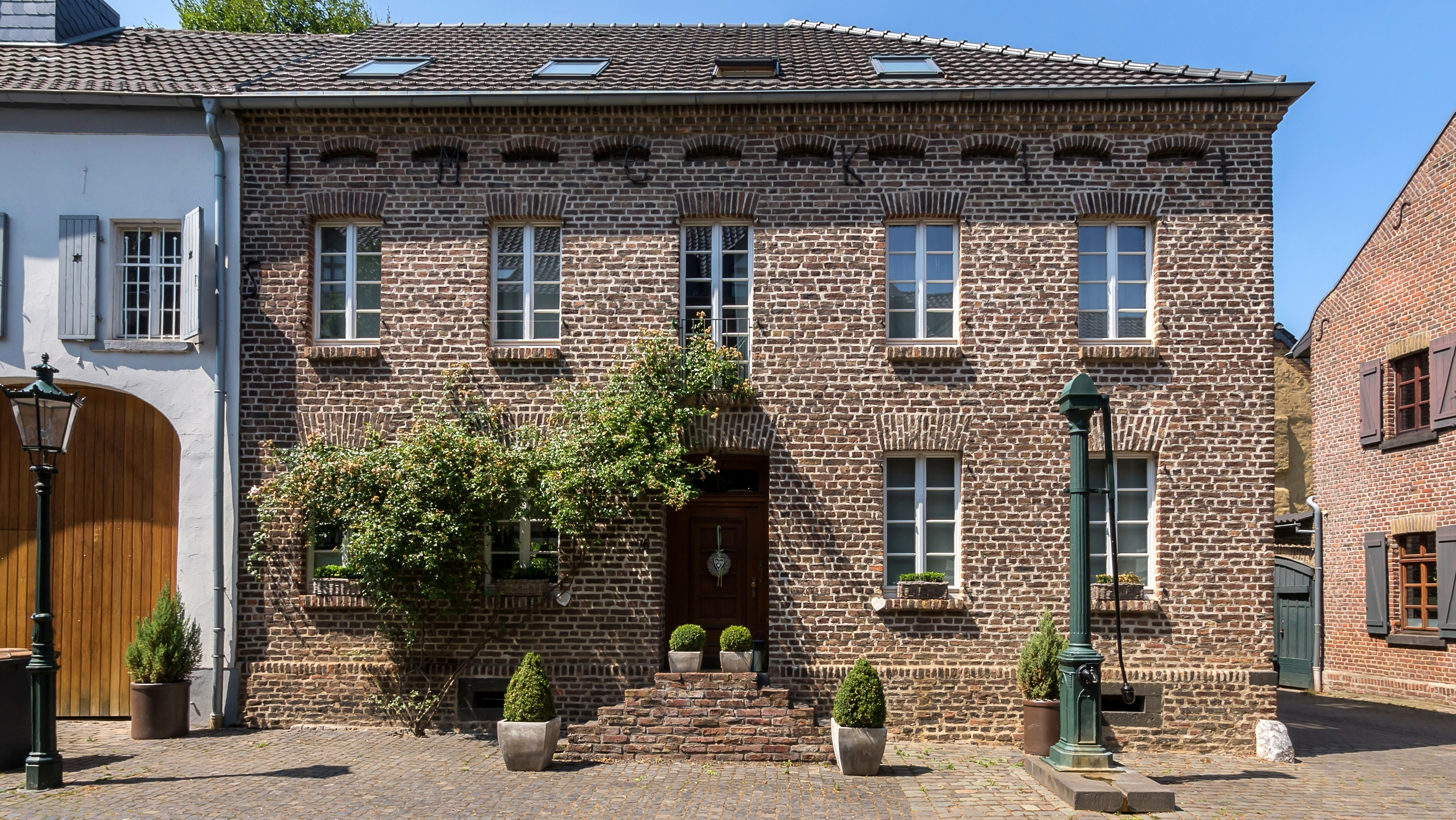 Kaster - Hauptstraße 76 Hofanlage, Alt-Kaster IIThis is a photograph of an architectural monument., no. 105